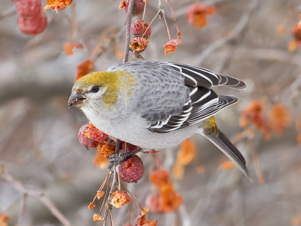 Adult female Pinicola enucleator feeding on crabapple fruit. Chippewa Co., Michigan, USA.